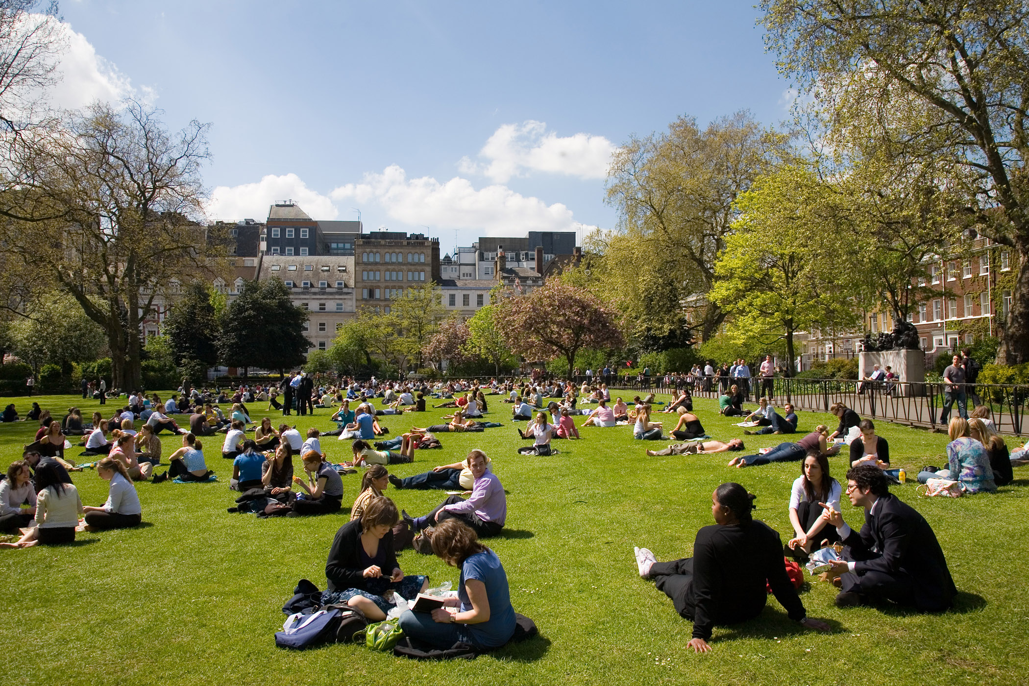 Lincoln's Inn Fields in Holborn, London, UK. The lunch time workers enjoy the spring sun on the grass.